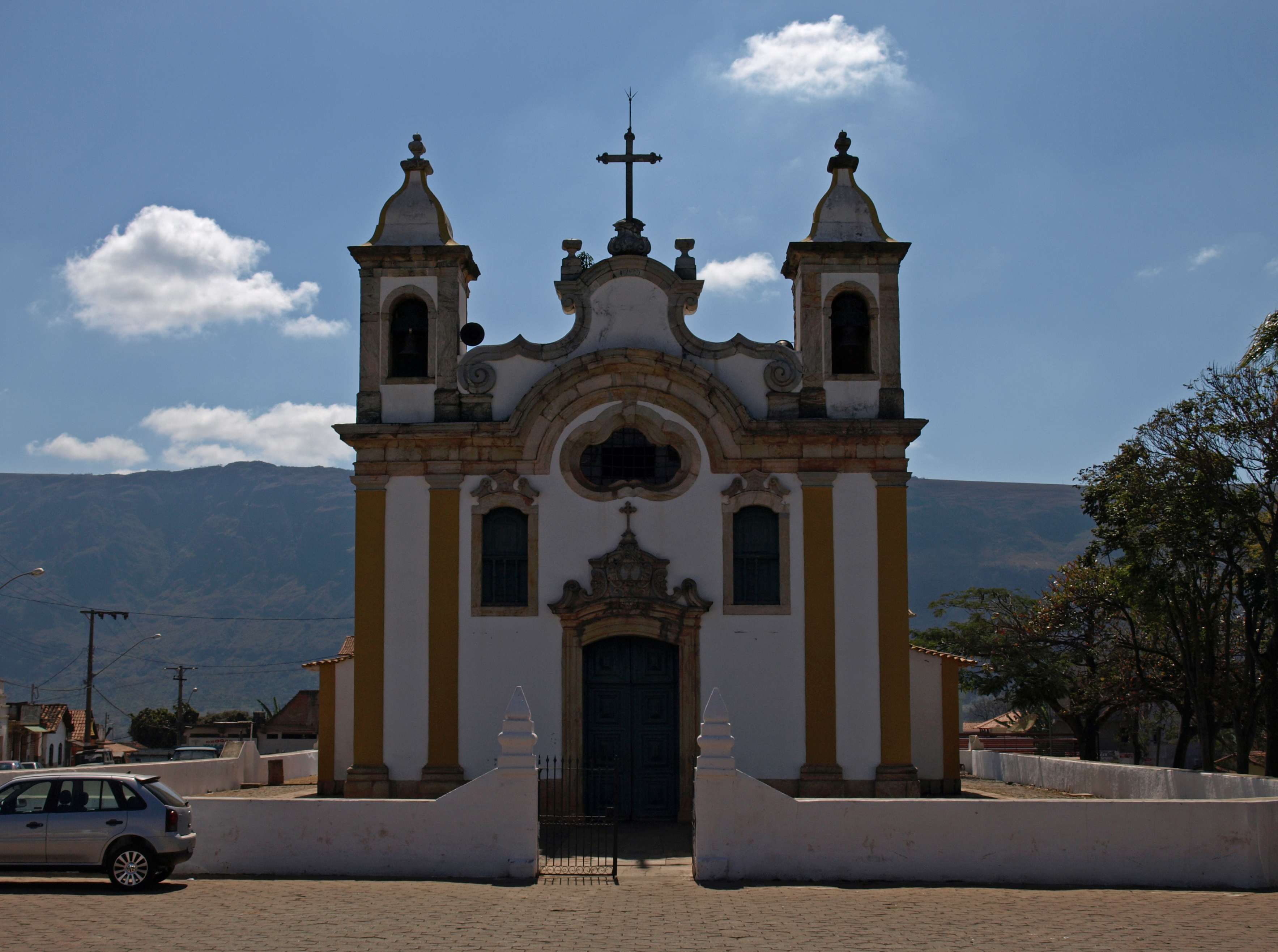 Matriz de Santo Antônio, Ouro Branco (Minas-Gerais, Brazil)